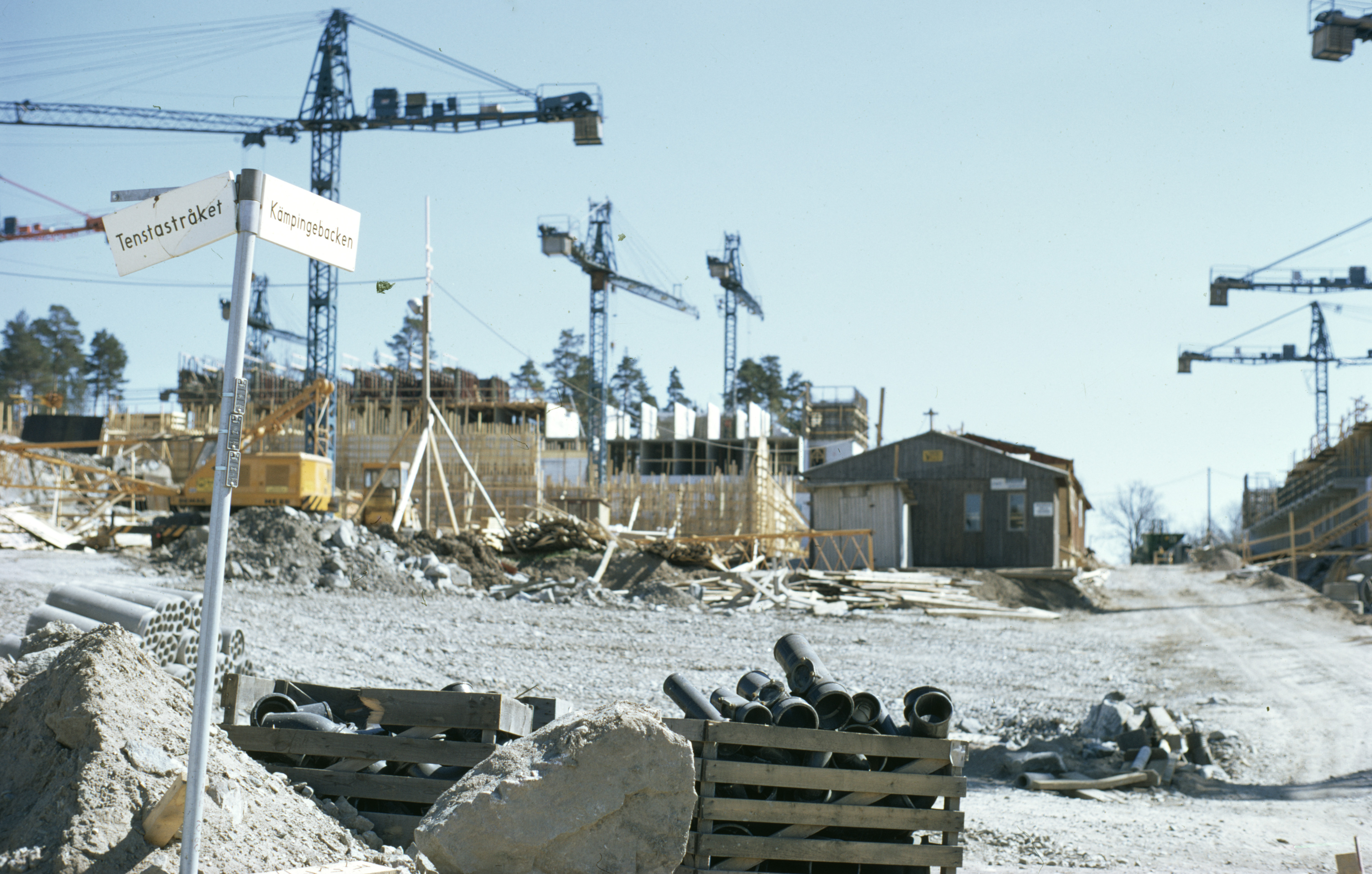 Kämpingebacken: Vy från väster mot kvarteret Neglinge under byggnad i maj 1968. 1968-1968FOTOGRAF: Källberg, Sixten.BILDNUMMER: dia 11233Stadsmuseet i Stockholm